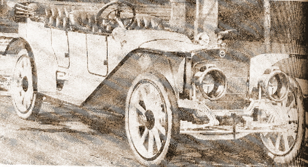 1913 Coey Flyer